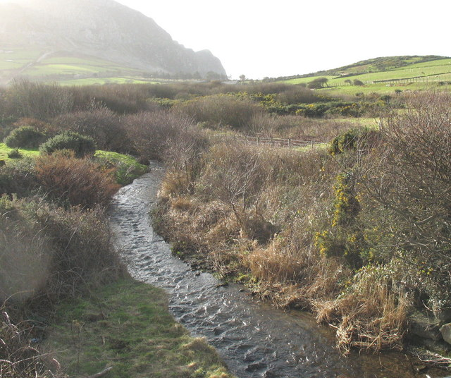 Afon Tal upstream of its lowest bridging point The stream, which has incised itself into the coastal plain is within feet of discharging into the sea.